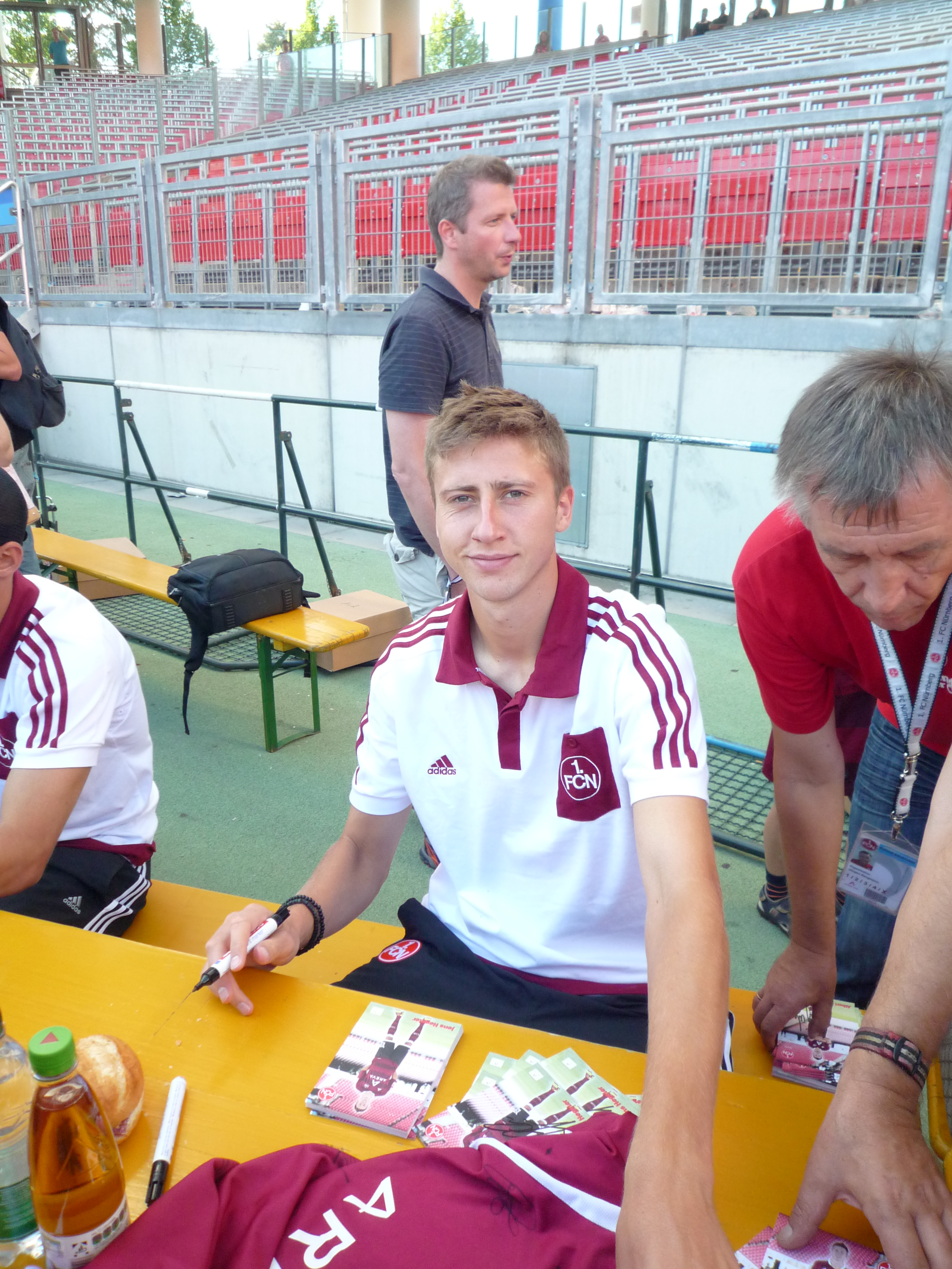 Jens Hegeler